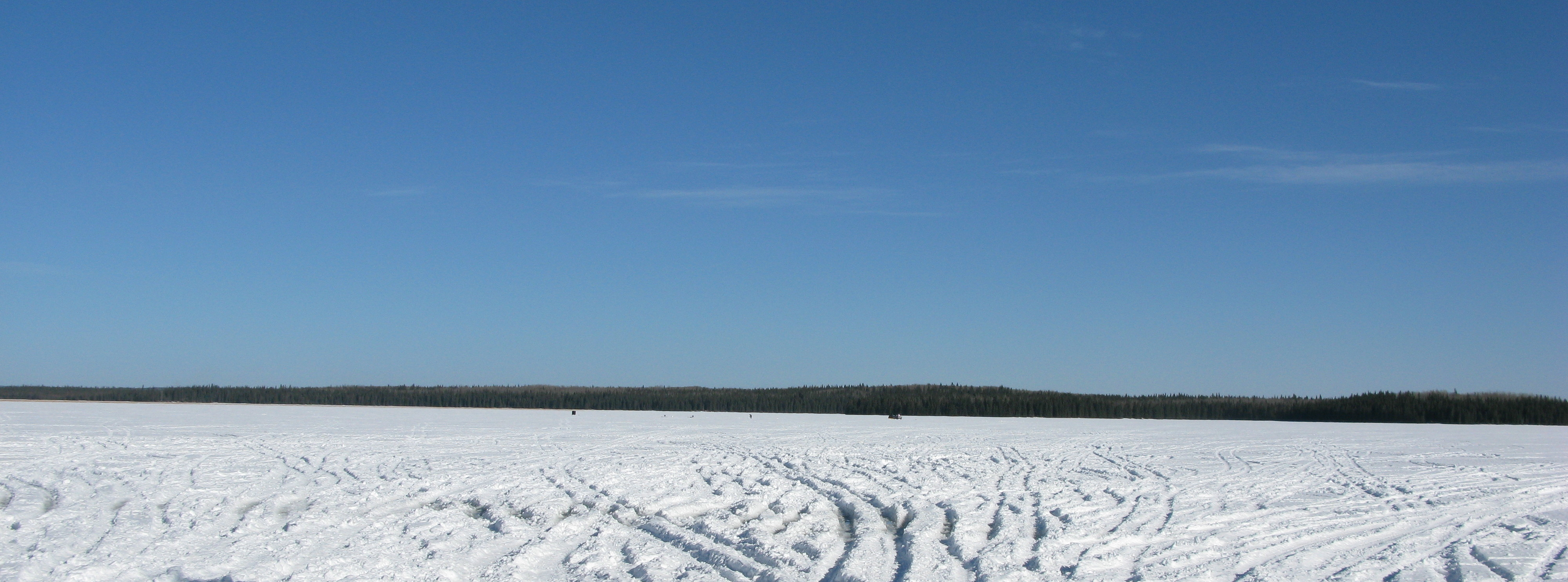 Wheateater